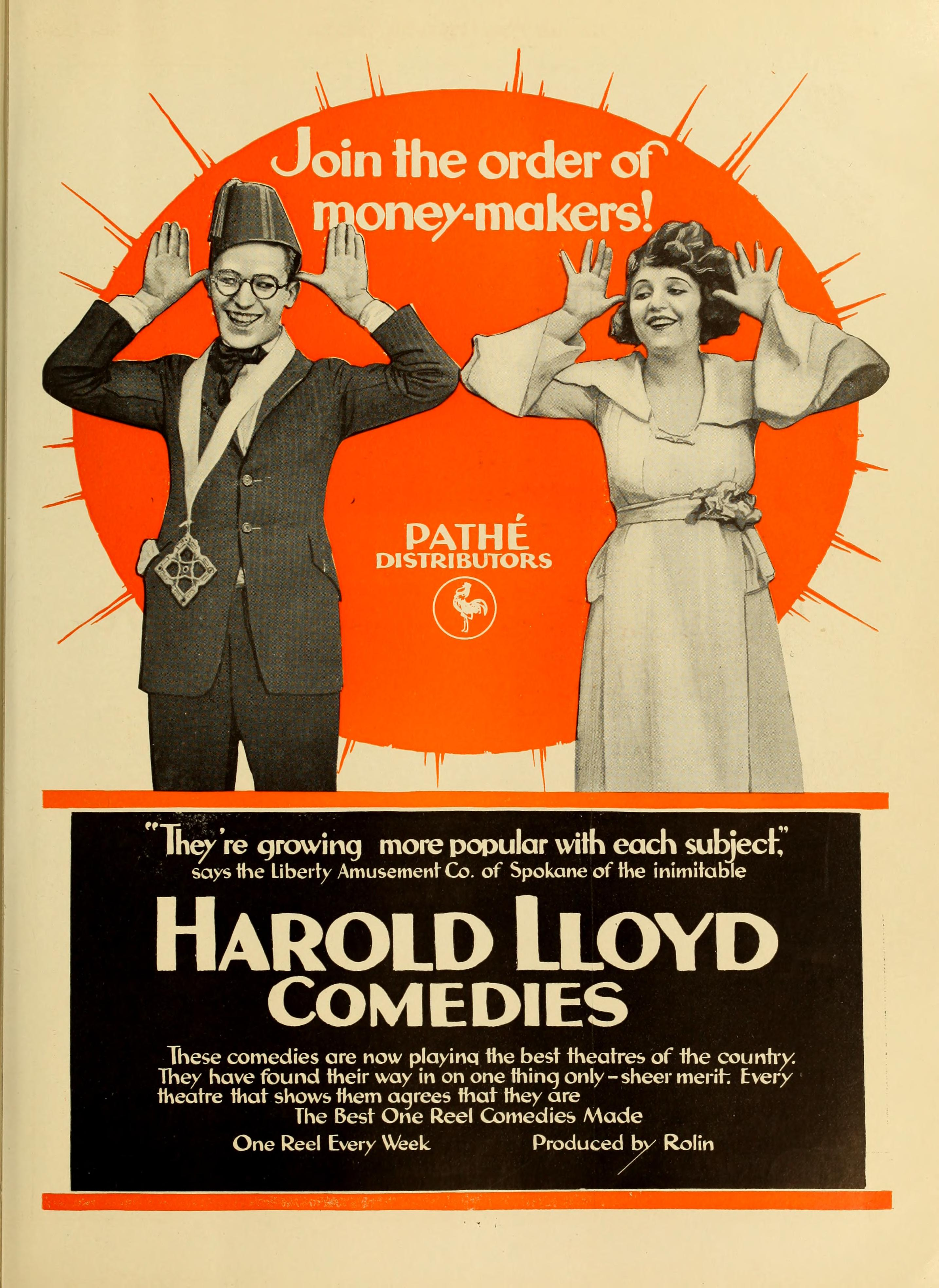 Advertisement for Harold Lloyd's comedies. Moving Picture World, June 1919